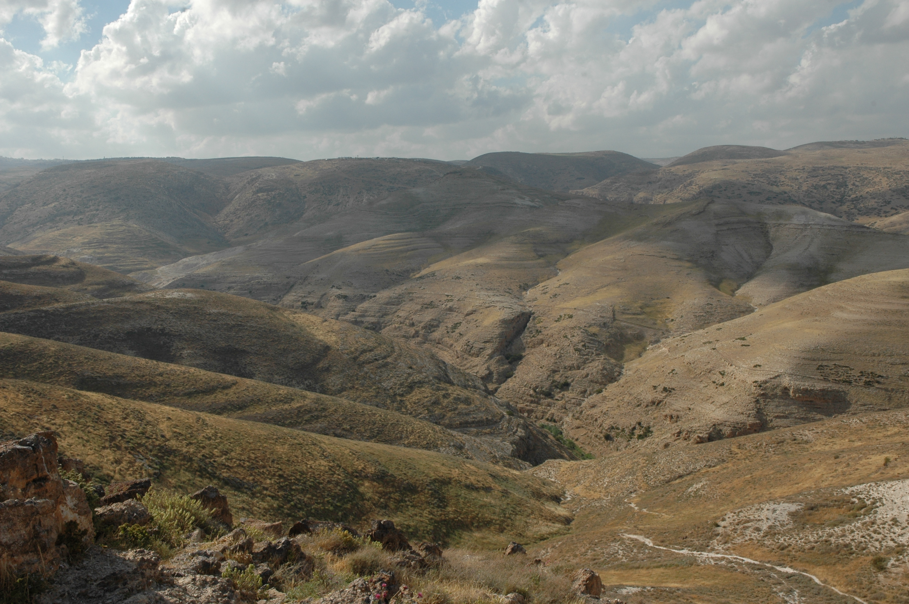 View of Wadi Qelt from Kfar Adumim, West Bank